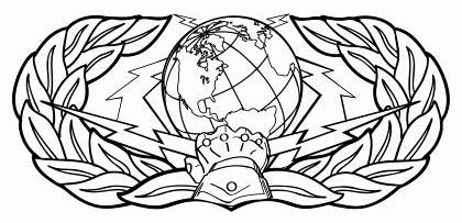 This is the badge of the new Cyberspace Support career field for the US Air Force.